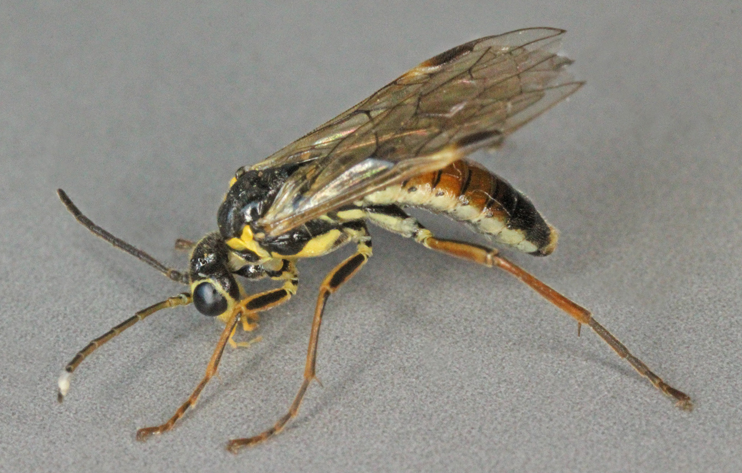 Aglaostigma fulvipes, Sontley, North Wales, May 2015 (4)